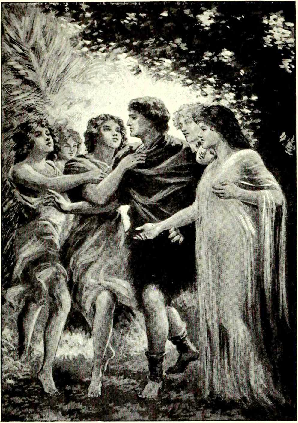 Scene from Wagner’s Parsifal, from the Victola book of the opera.